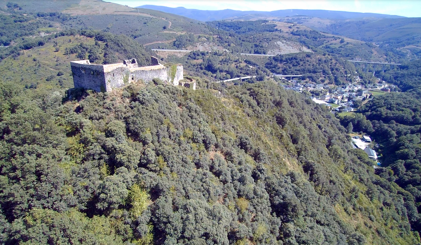 Castle of Sarracín, Vega de Valcarce, León, Spain